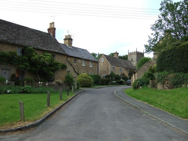 Church Enstone, Oxfordshire: the lane to the church, seen near the Crown public house